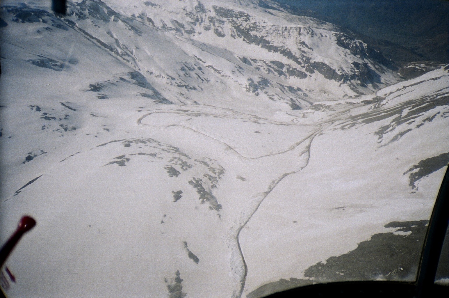 Rothang pass - unpassable manali-Leh road in winter